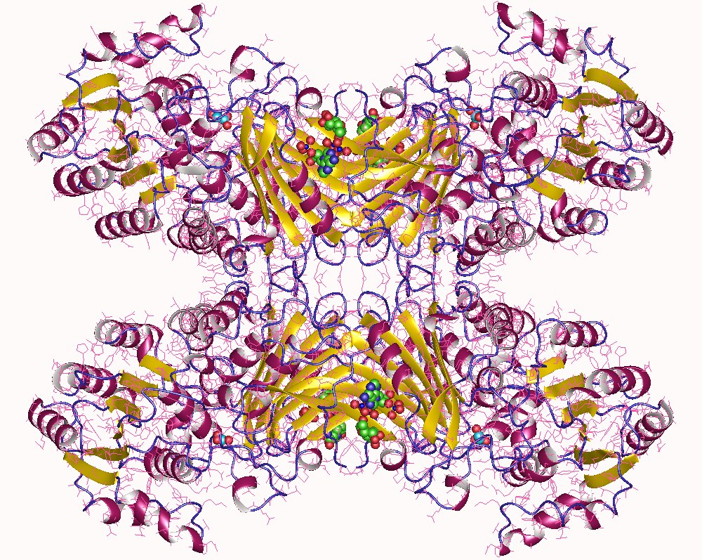 Glucose-6-phosphate dehydrogenase homotetramer + 4 NADP (green-red) + 4 glycolic acid (l.blue-red), Human